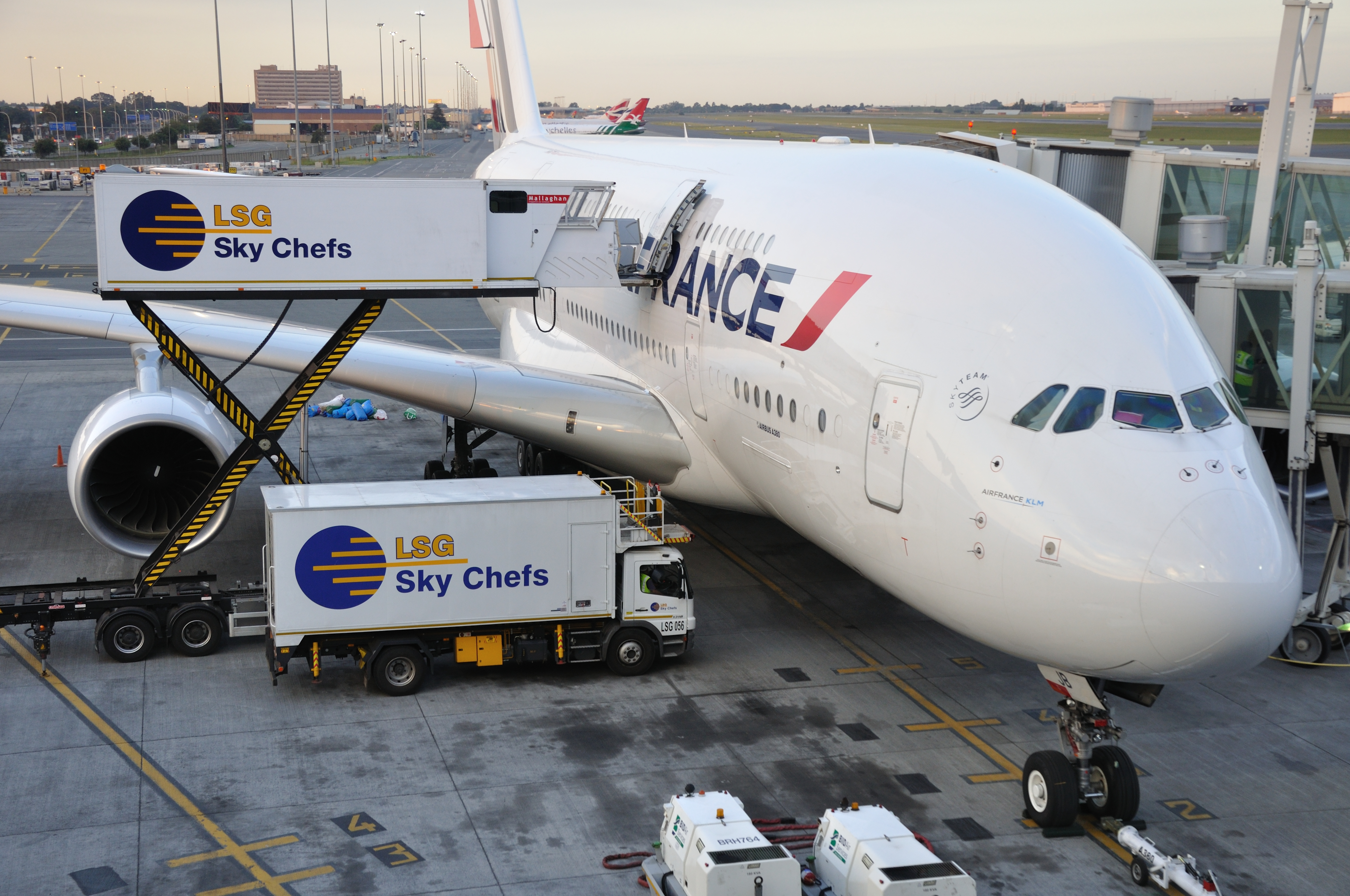 South Africa, spotting at OR Tambo International Airport in Johannesburg: Air France's A380-800 F-HPJB being prepared at the gate for it's night flight to Paris.